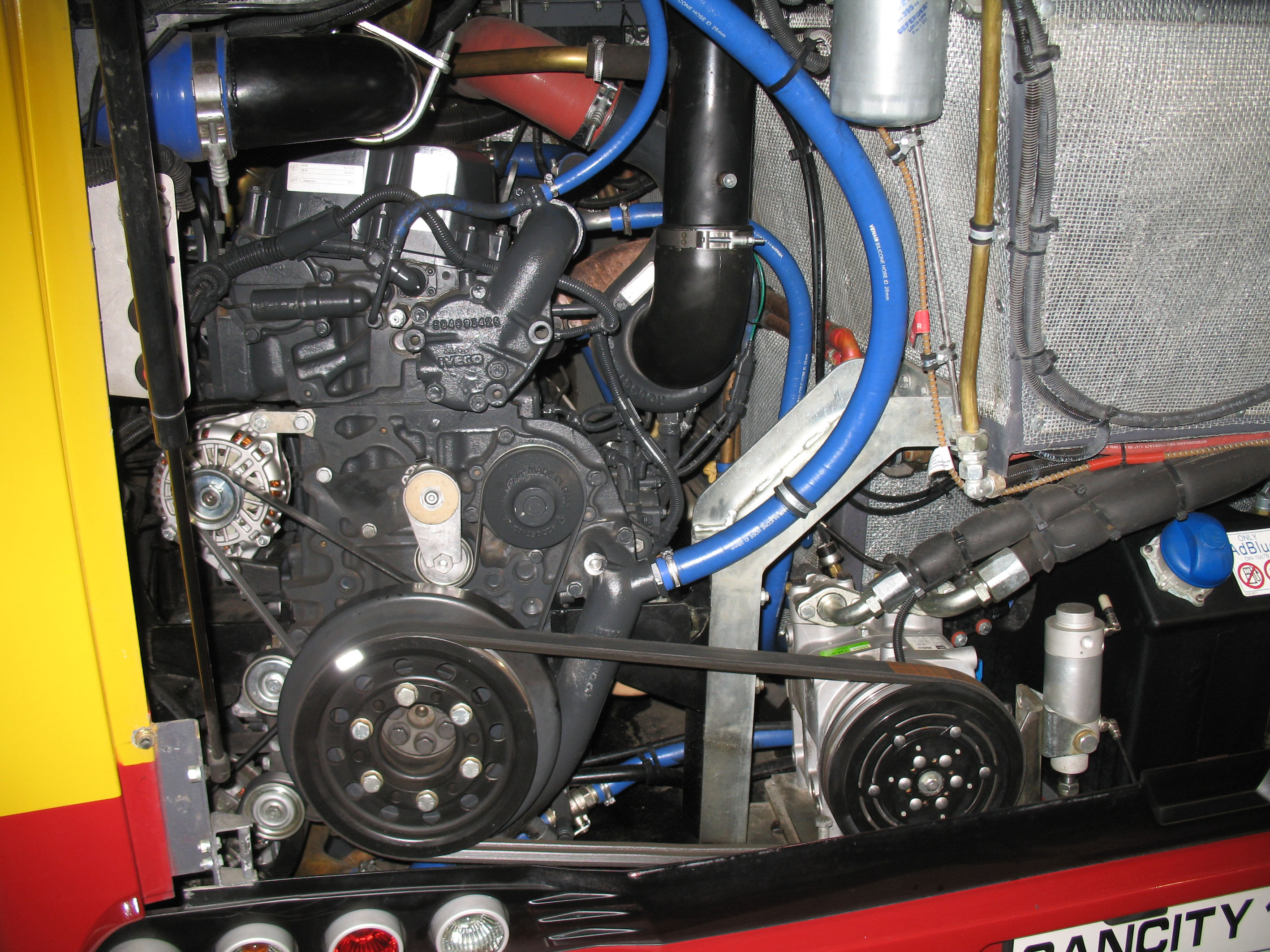 Autosan Sancity 12 LF bus engine (Iveco Cursor 78 EEV) in Kielce, Poland. Built 2010. Transexpo 2010.